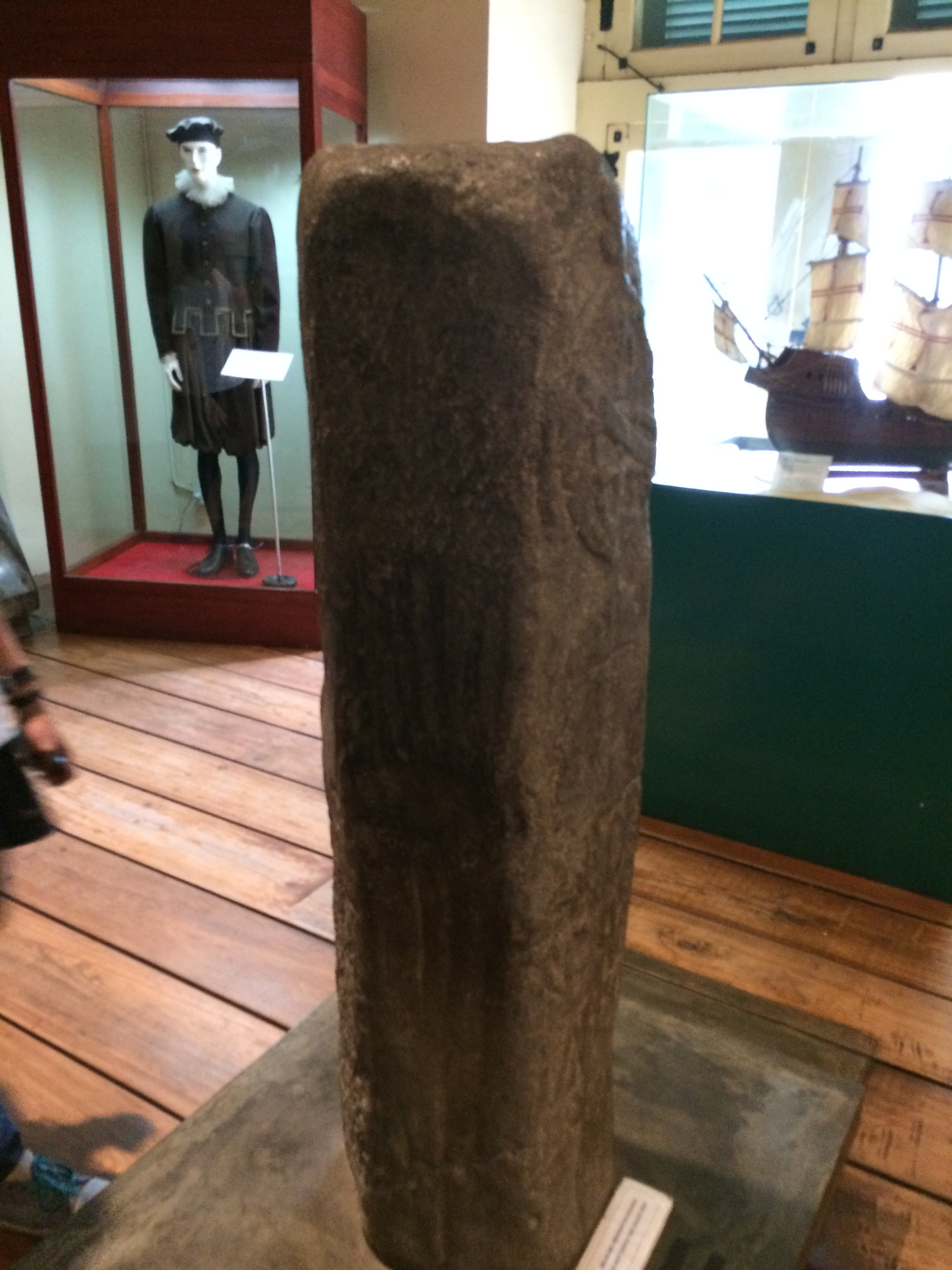 Replica of the Luso-Sundanese Padrão Monument, a stone pillar commemorating a treaty between the kingdoms of Portugal and Sunda. Location: Jakarta History Museum